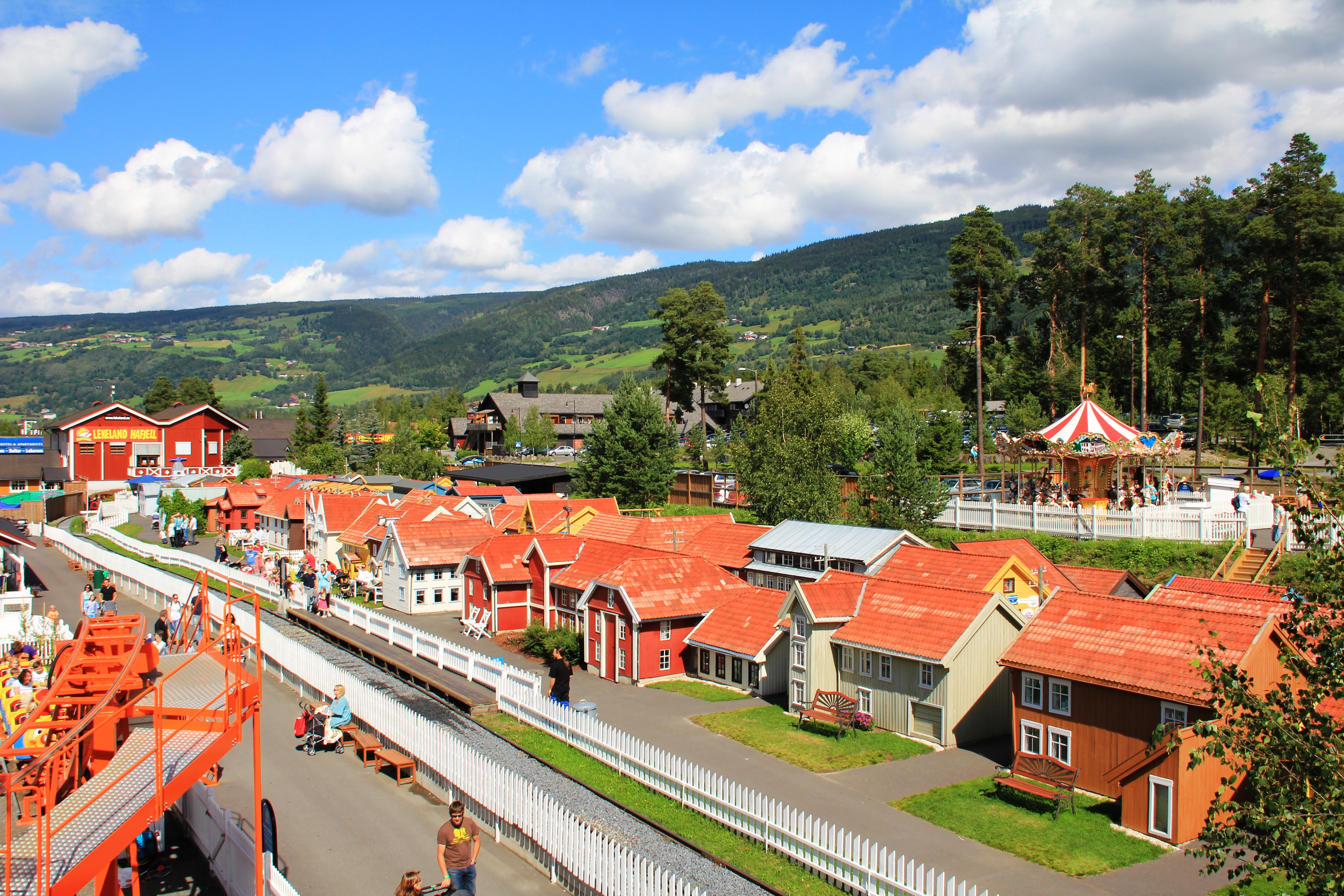 Lilleputhammer, amusementpark and miniature houses in Hafjell, Lillehammer.